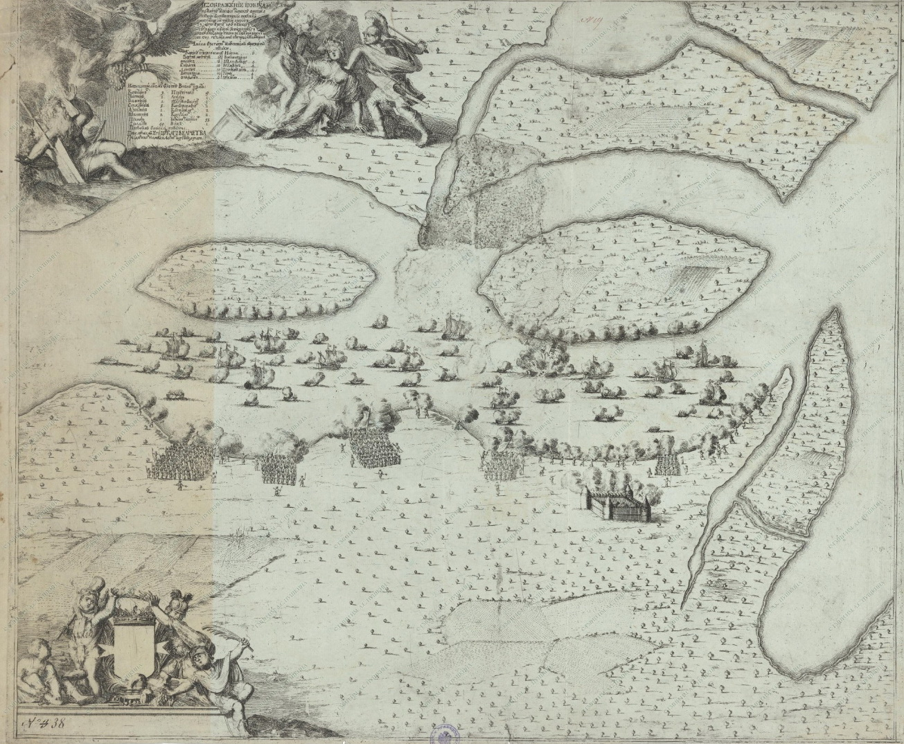 Embach Fluss waehrend des Gefechts am Embach am 7.5.1704 im Großen Nordischen Krieg